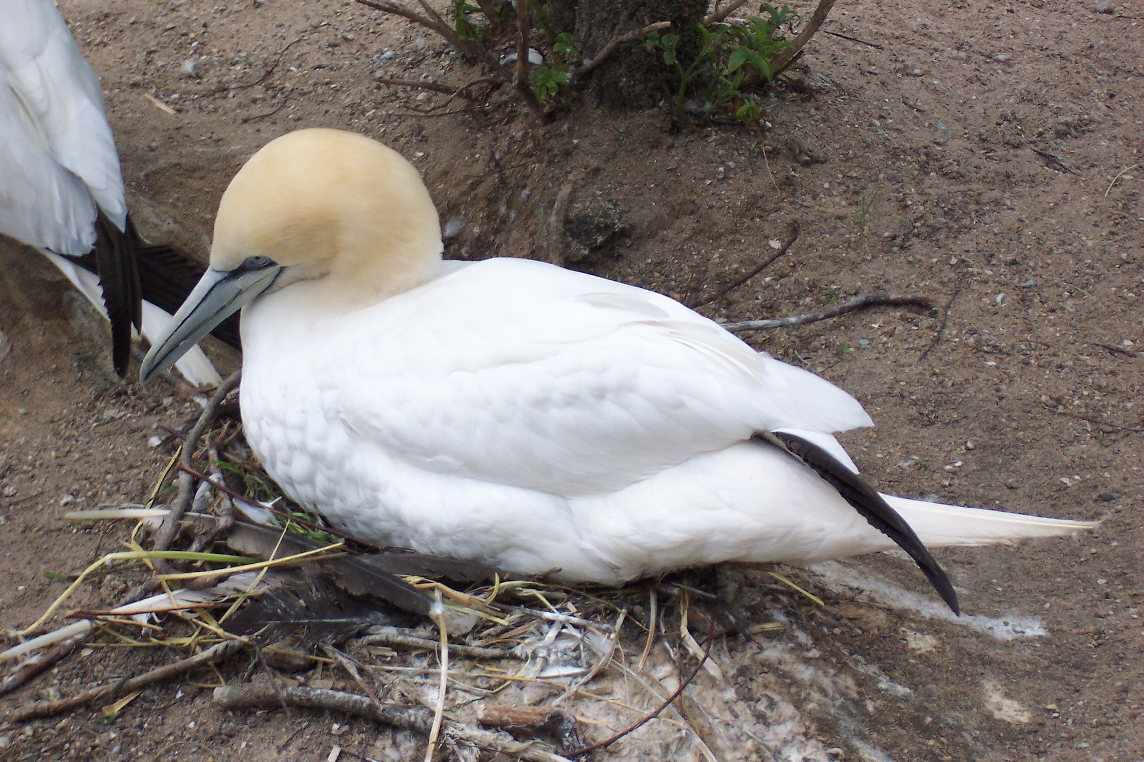 Nothern Gantern